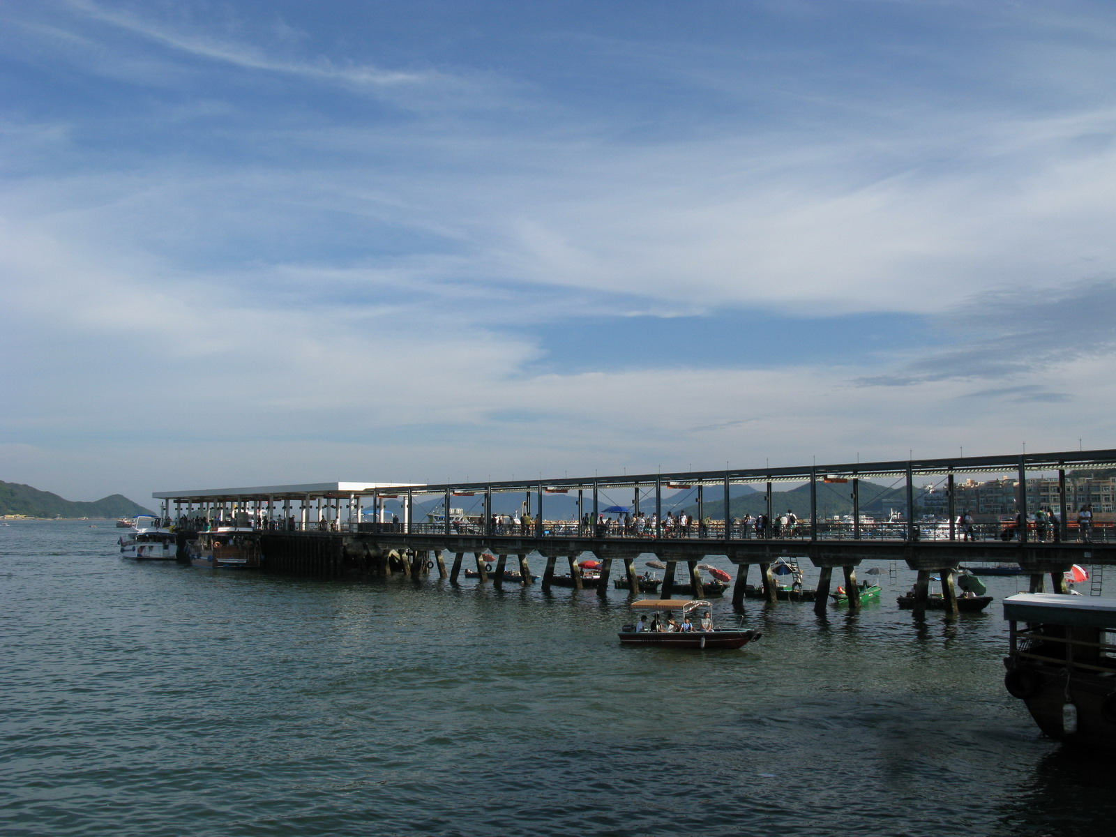 Sai Kung Public Pier